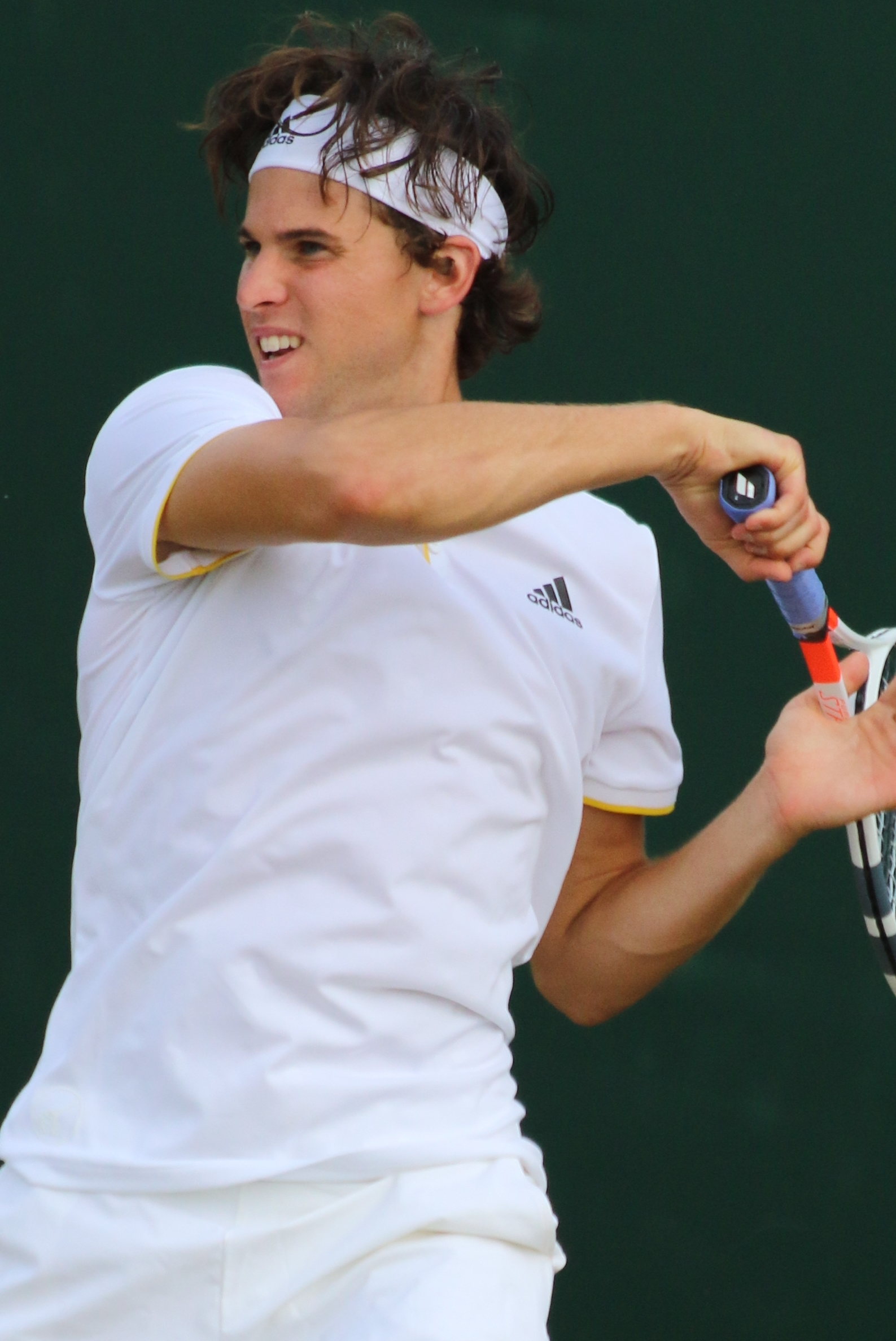 Thiem WM17 (20)